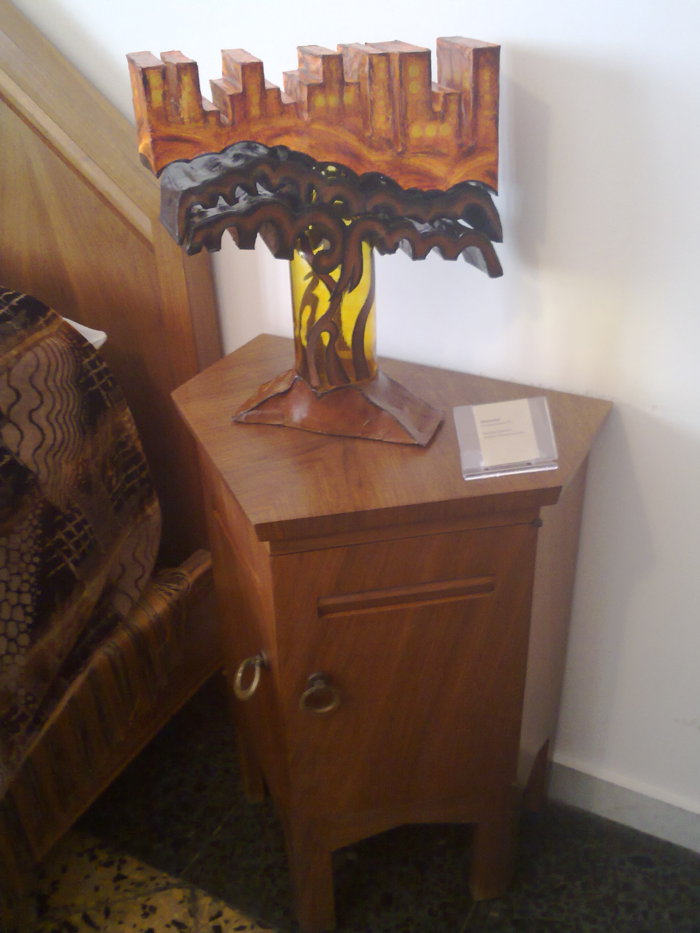 Cambellotti lamp from the aquedotto building, Bari, Italy.